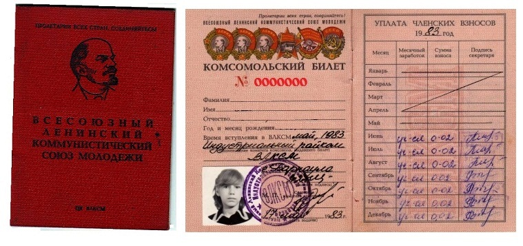 Komsomolsky ticket (№ and Full name removed)